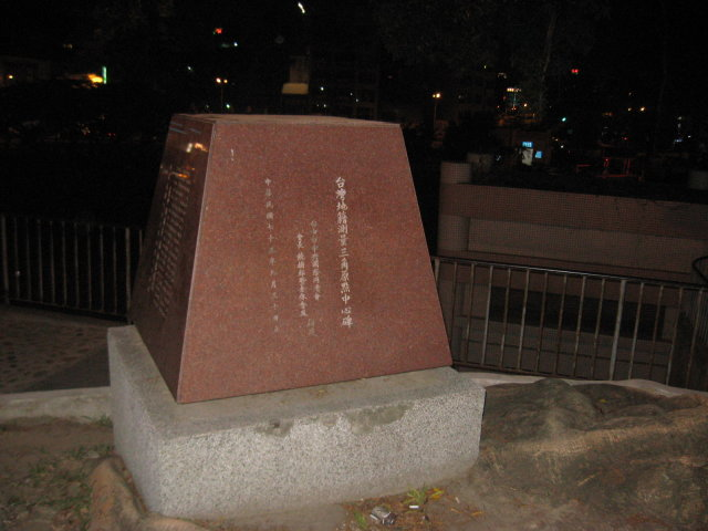 A trig point in Taichung Park, Taichung City, Taiwan.中文（台灣）: 台灣地籍測量三角原點中心碑，位於台灣台中市台中公園內，台中市中央國際同濟會捐資整建美化。